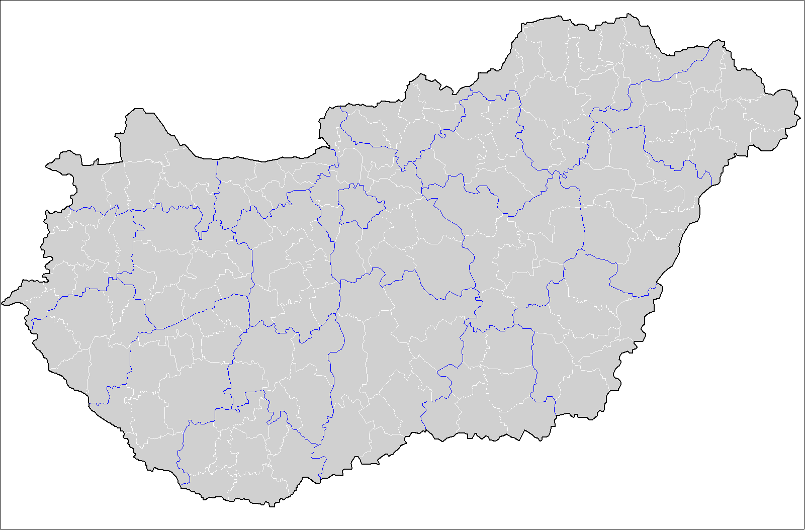 Map of the micro-regions (kistérség) of Hungary. Created by Rarelibra 13:36, 27 June 2007 (UTC) for public domain use, using MapInfo Professional v8.5 and various mapping resources.